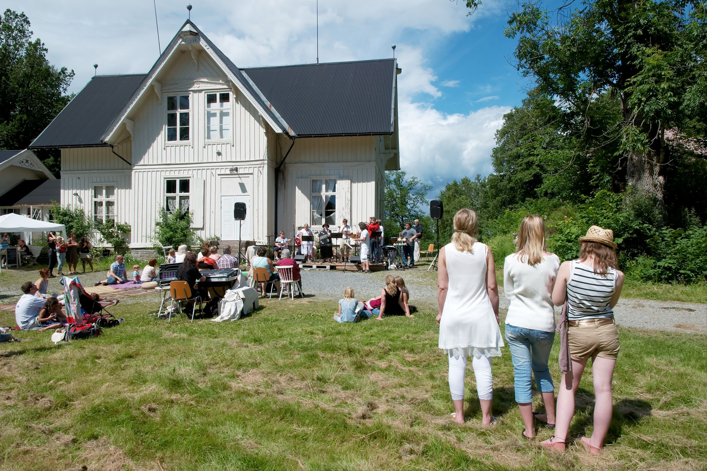 Esvika during the Festival of Silence 2011